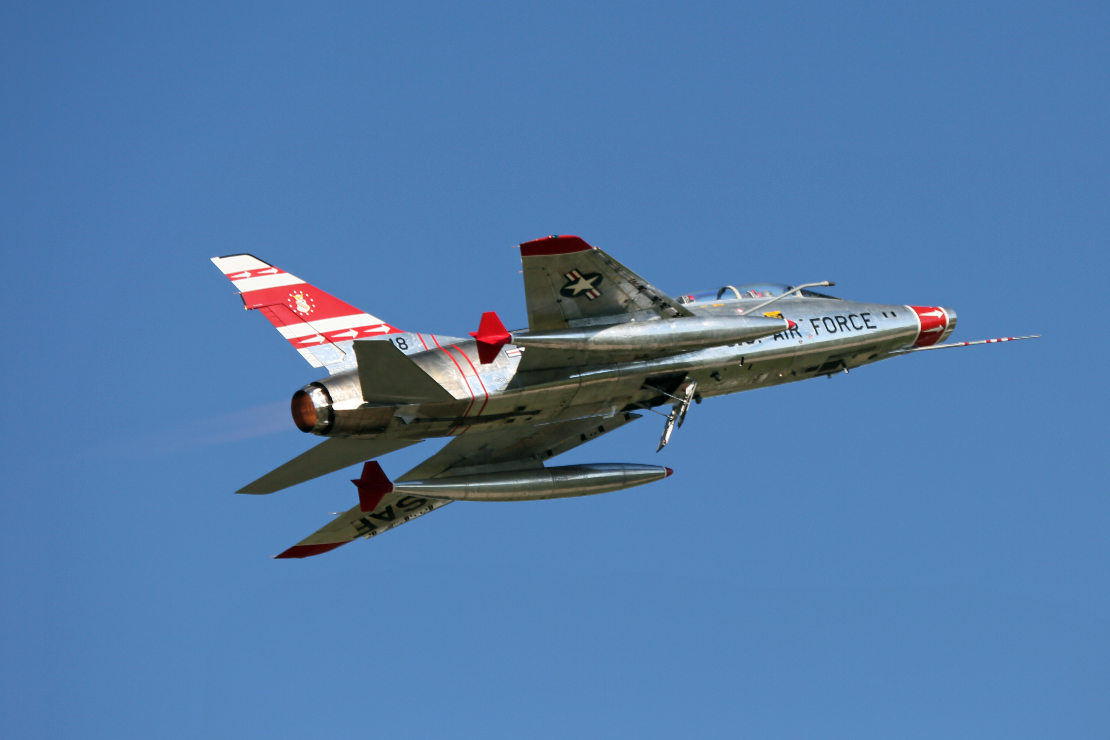 North American F-100F Super Sabre